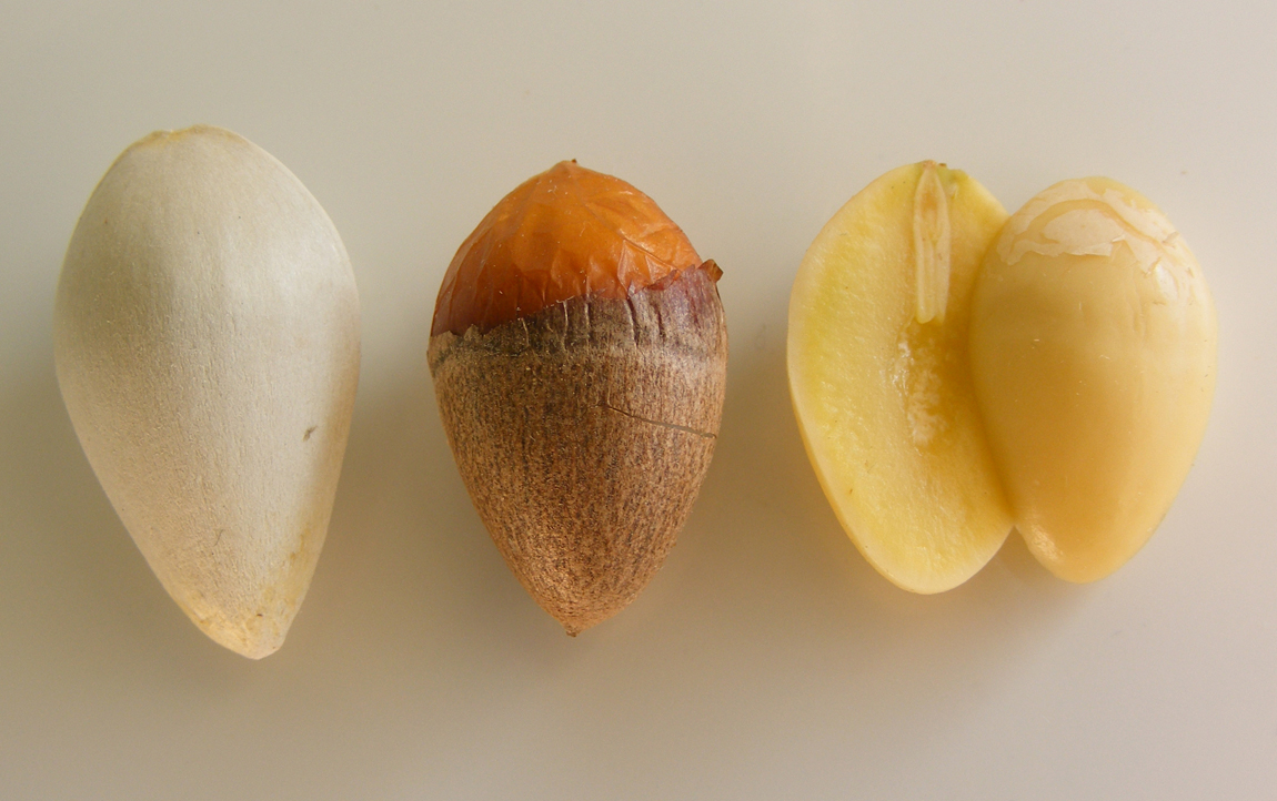 Ginkgo Nut, dissected